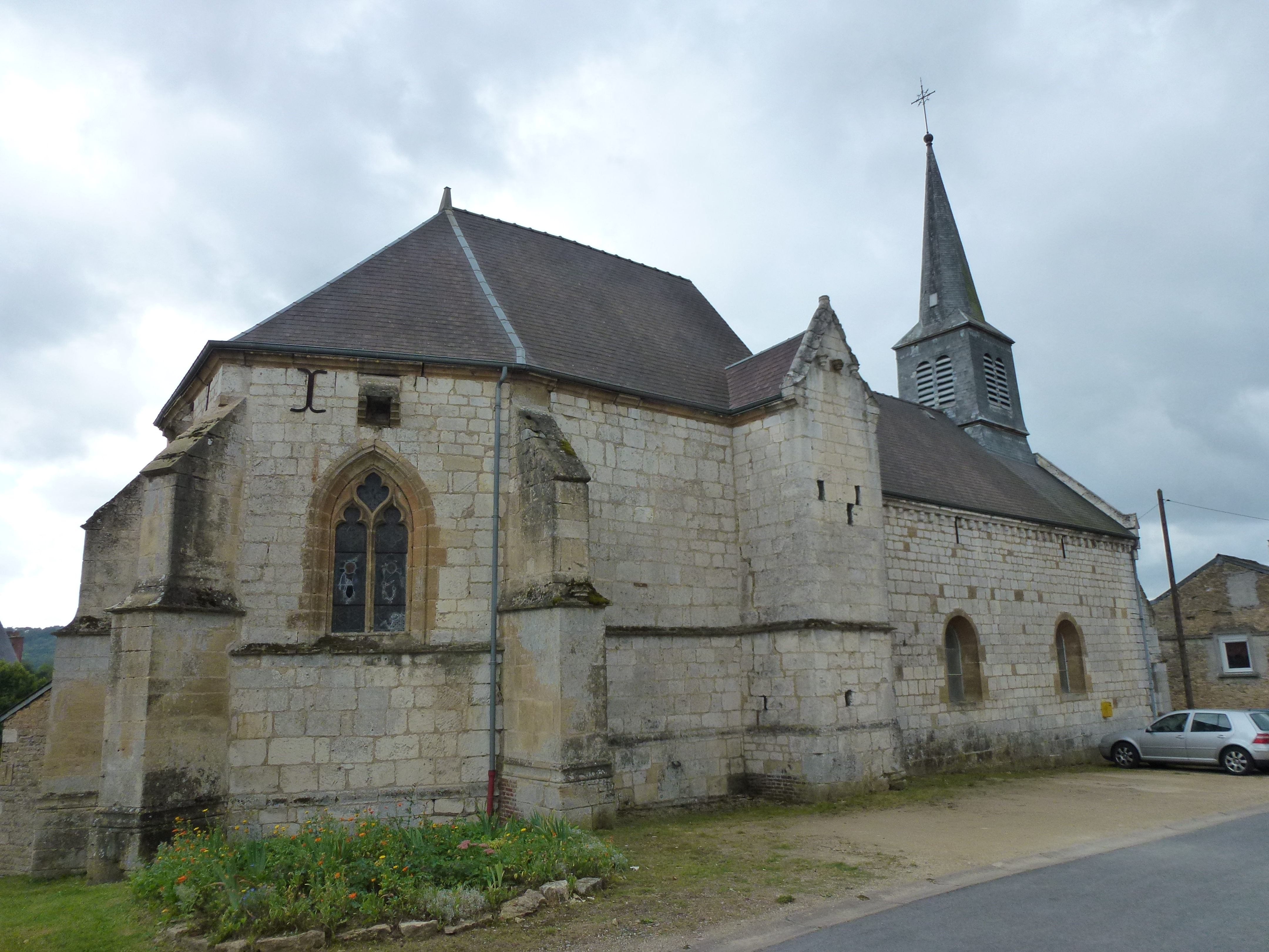 Montigny-sur-Vence (Ardennes) église